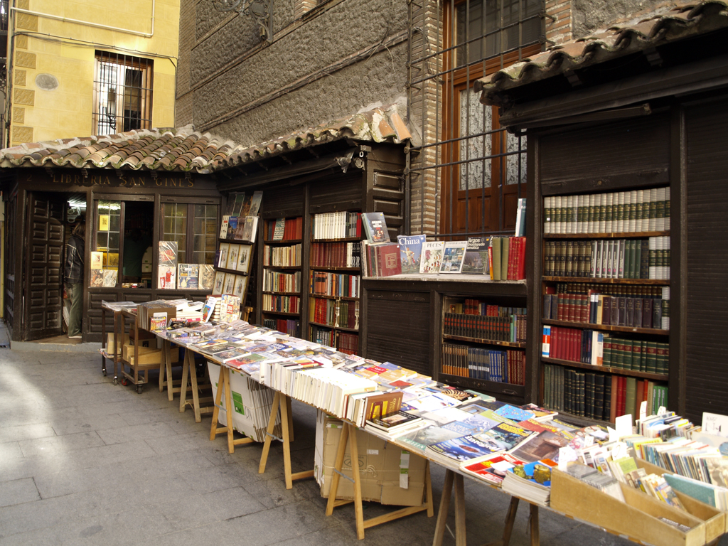 San Ginés bookshop in Madrid, Spain